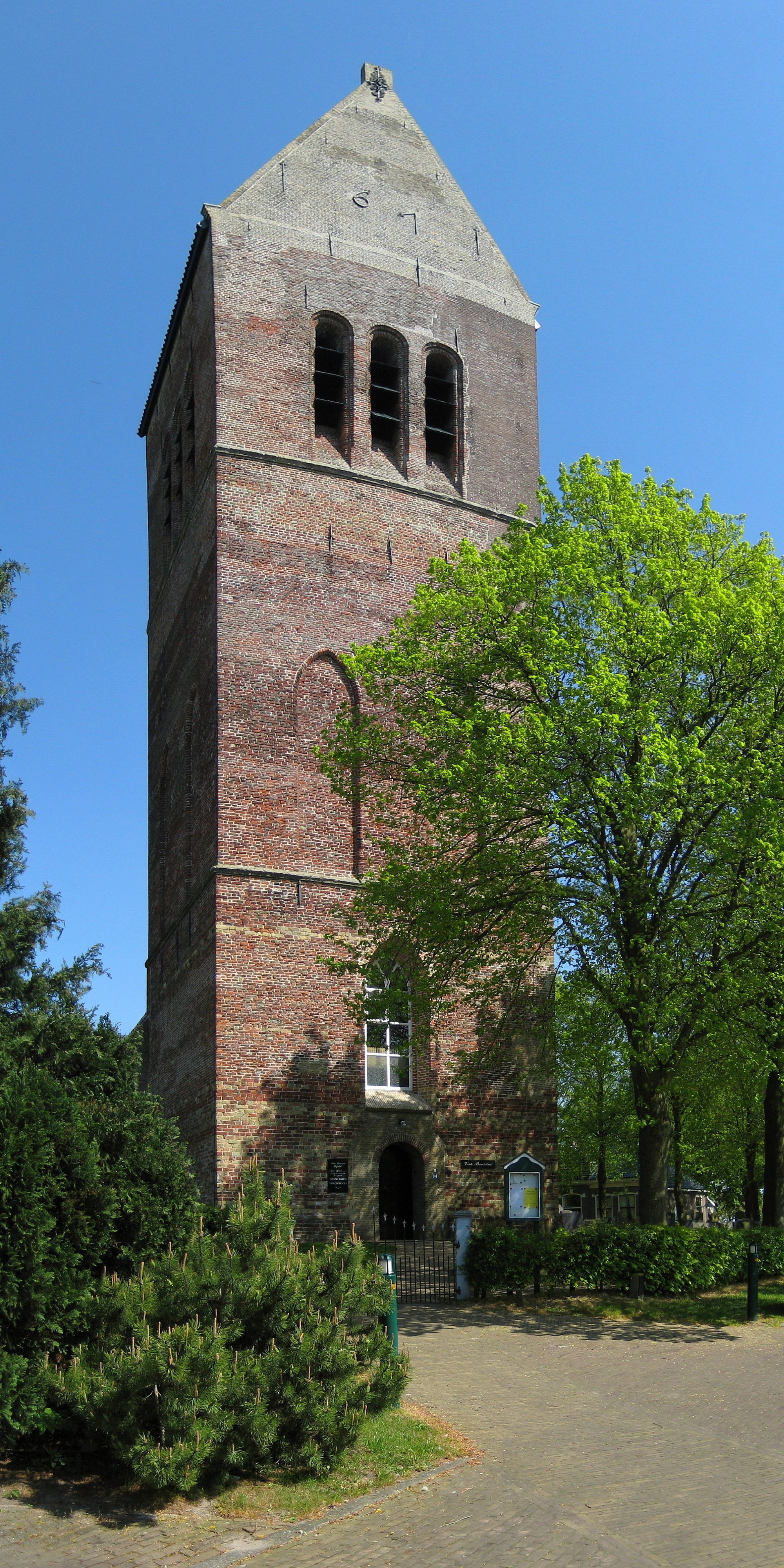 The church tower of Wikel, a village in the Dutch province of Fryslân.